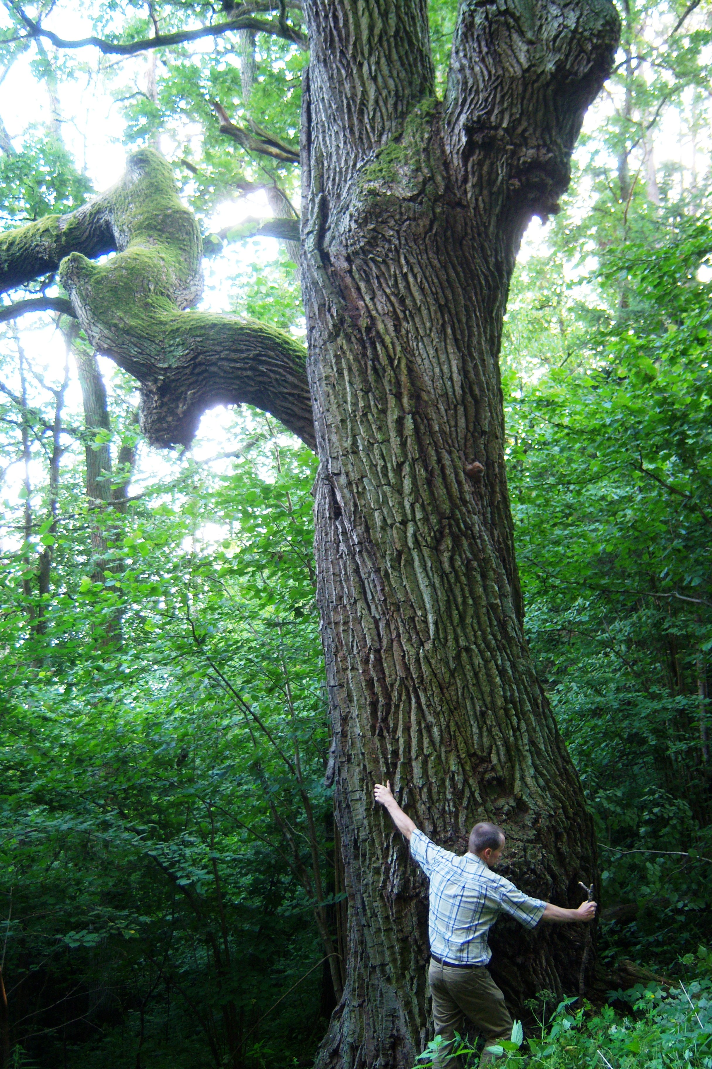 Gastilionių oak by Kaunas Reservoir, Kaišiadorys district, Lithuania